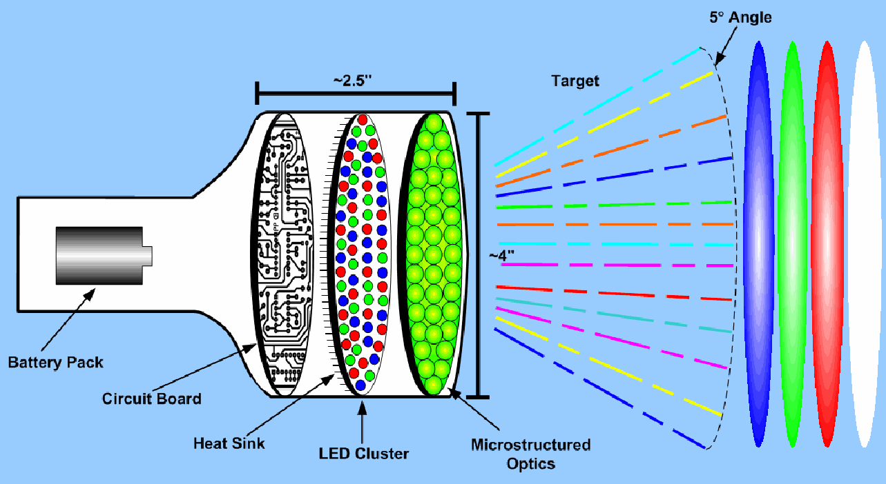 Cross sectional disgram of the LED Incapacitator, from a newsletter of the US Dept. of Homeland Security.